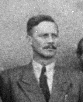 Ministers of the Arrow Cross Party government. Ferenc Szálasi is in the middle of the lower row.